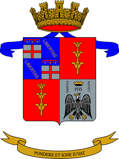 Coat of Arms of the 9° Armoured Battalion; Italian Army (till 1975 3rd tank regiment).